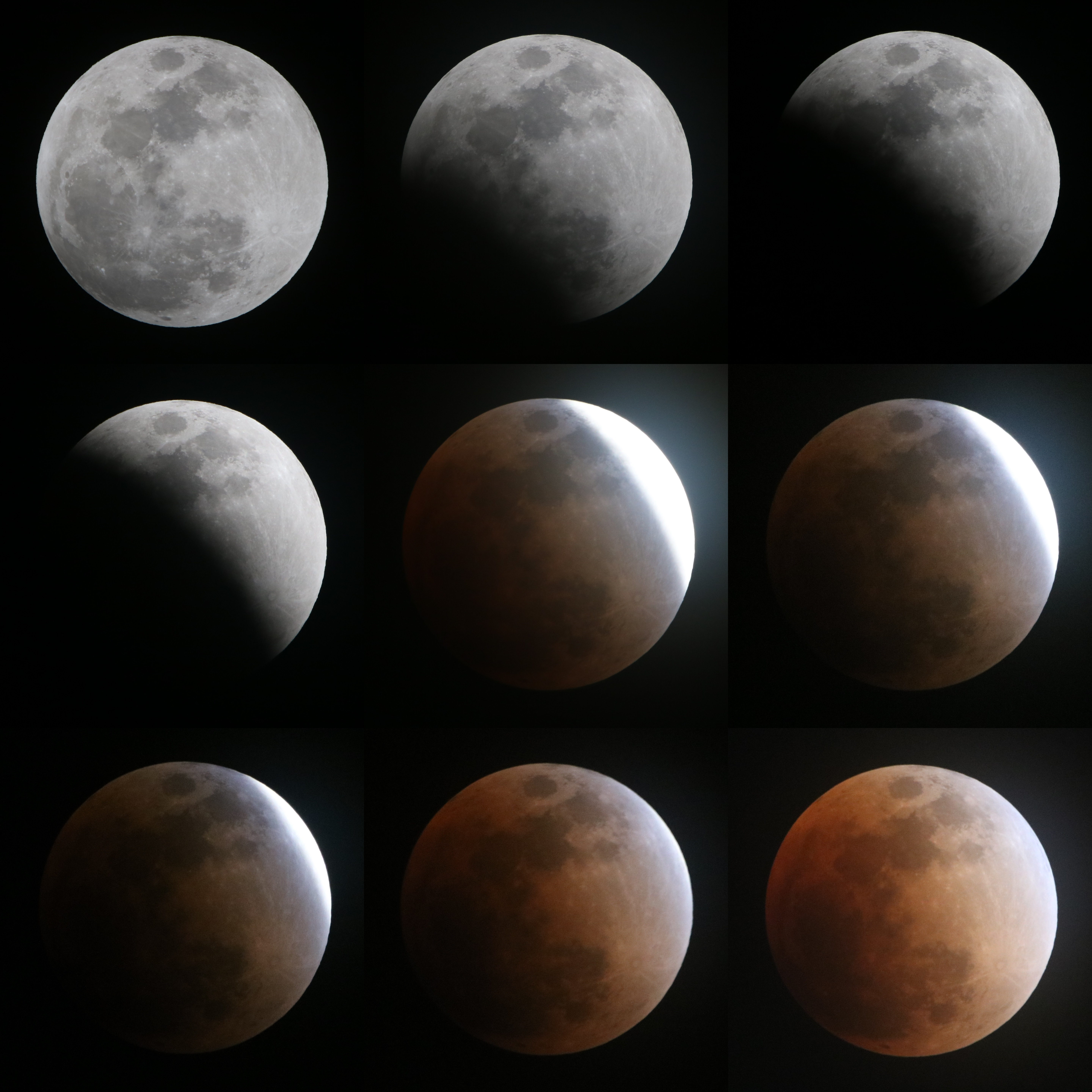 Montage of Lunar eclipse on January 31, 2018 in Aichi Prefcture, Japan.